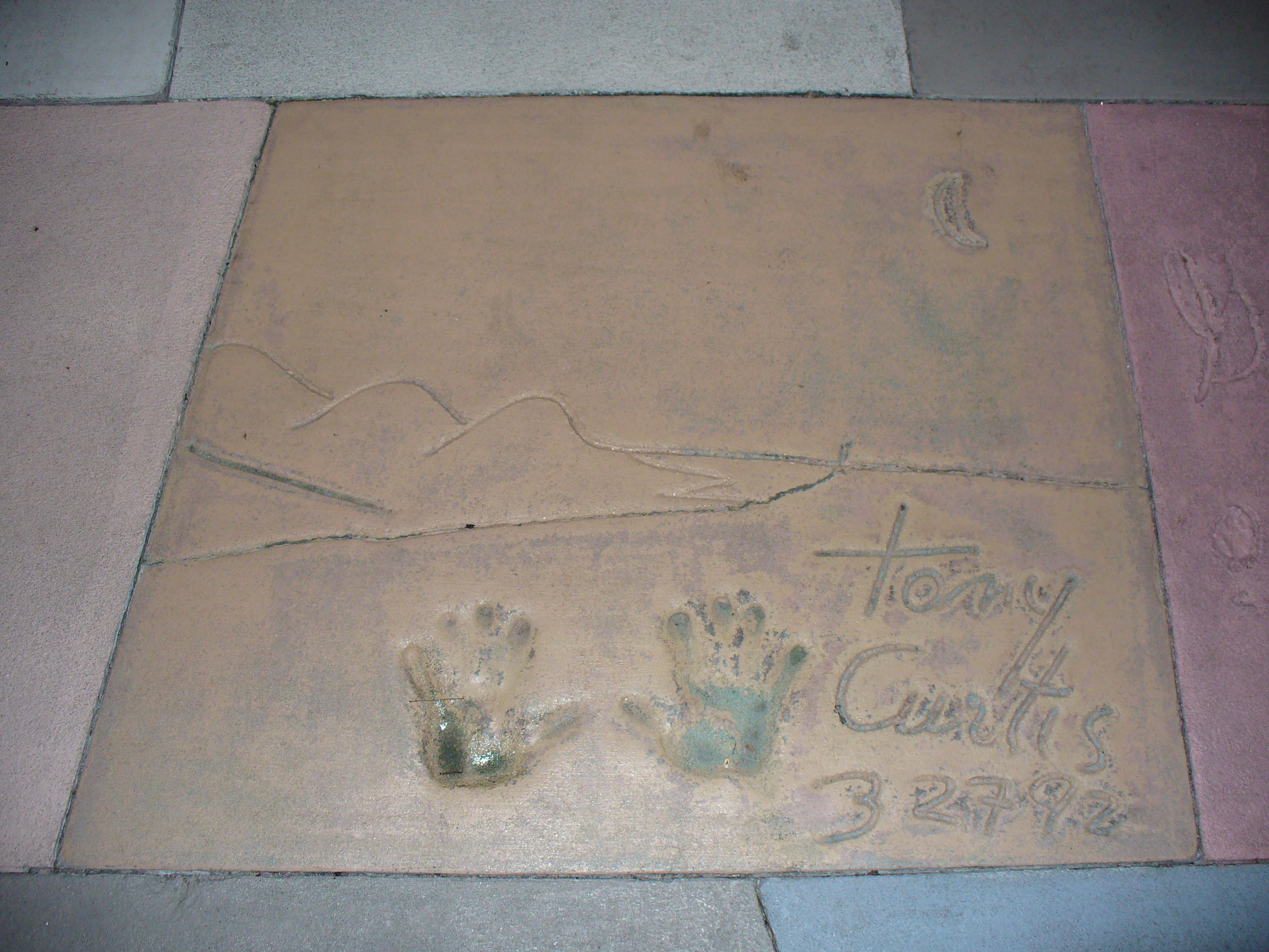 I am the originator of this photo. I hold the copyright. I release it to the public domain. This photo depicts the handprints of Tony Curtis in front of The Great Movie Ride at Walt Disney World's Disney's Hollywood Studios theme park.